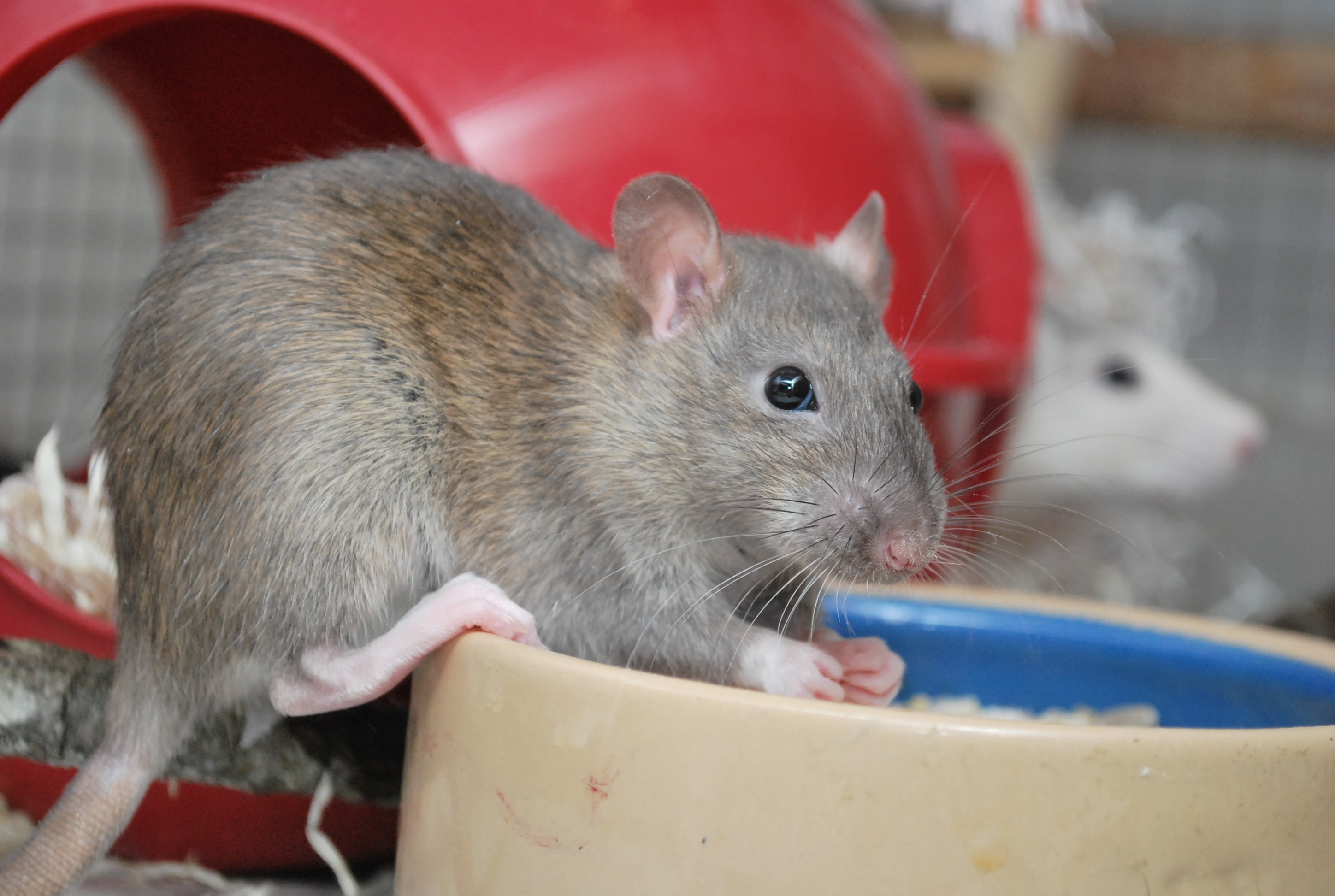 Agouti pet rat, female, 4 months old.